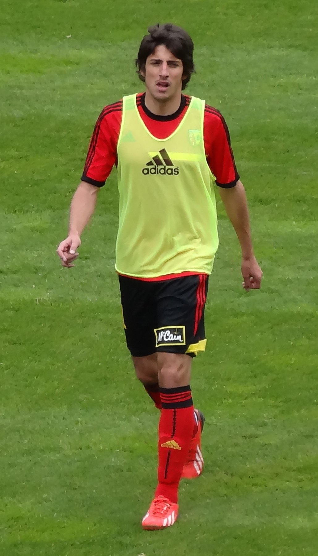 Pablo Chavarria